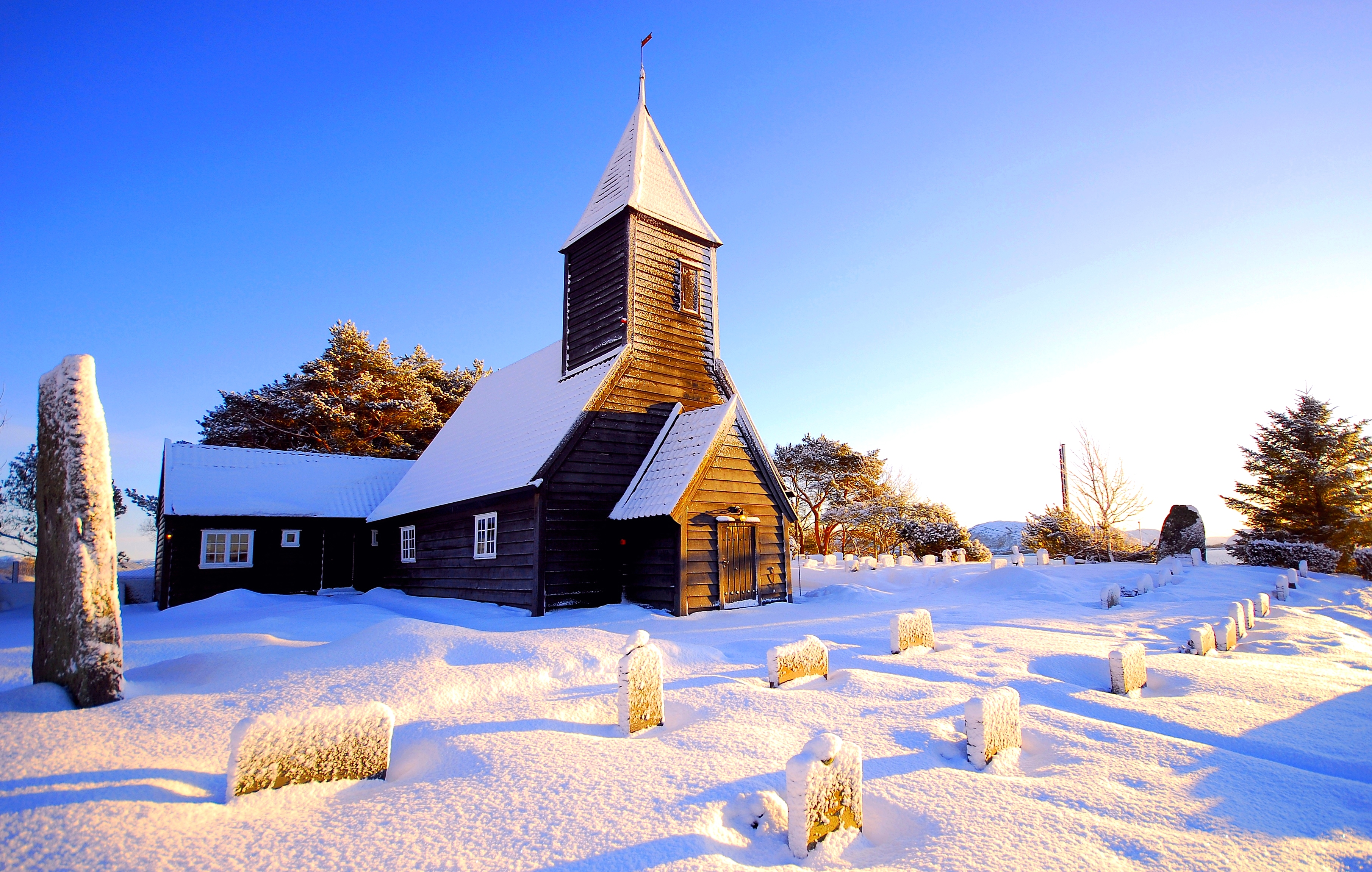 Vilnes church in Askvoll, Sogn og Fjordane, Norway, from 1674.